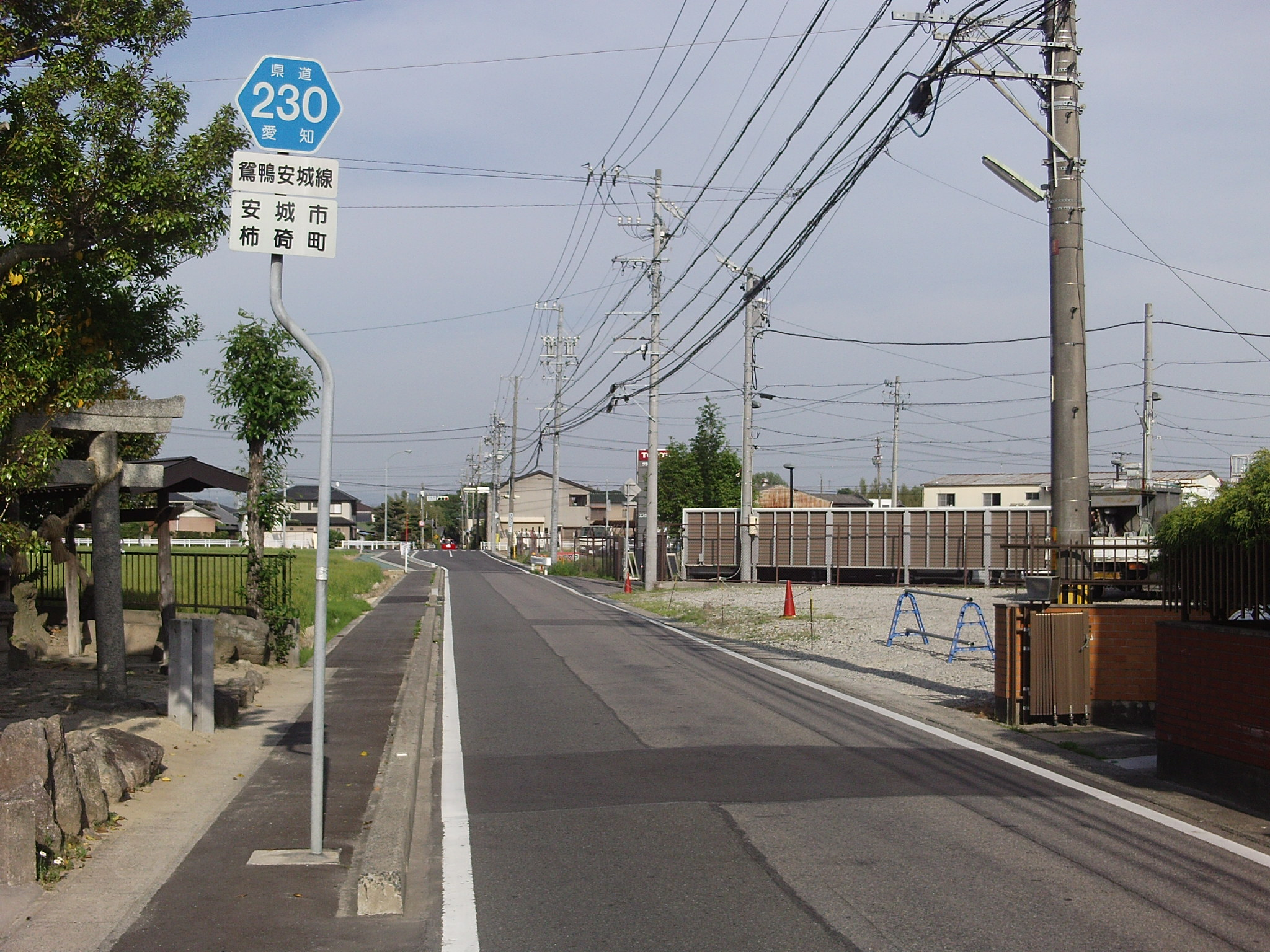 Aichi prefectural road No.230 in Kakisakicho, Anjo, Aichi.